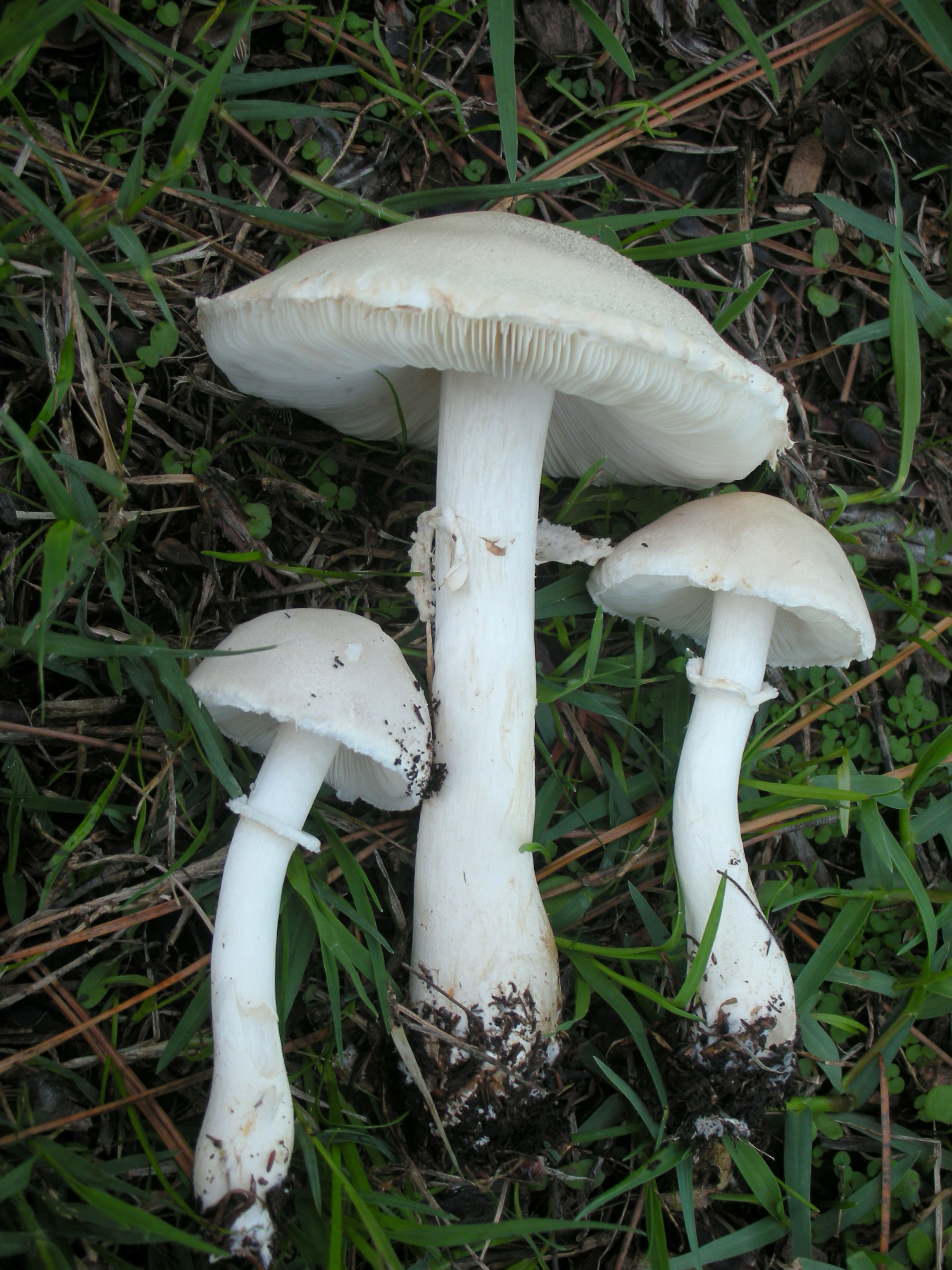 Leucoagaricus leucothites (Vittad.) M.M. Moser ex Bon